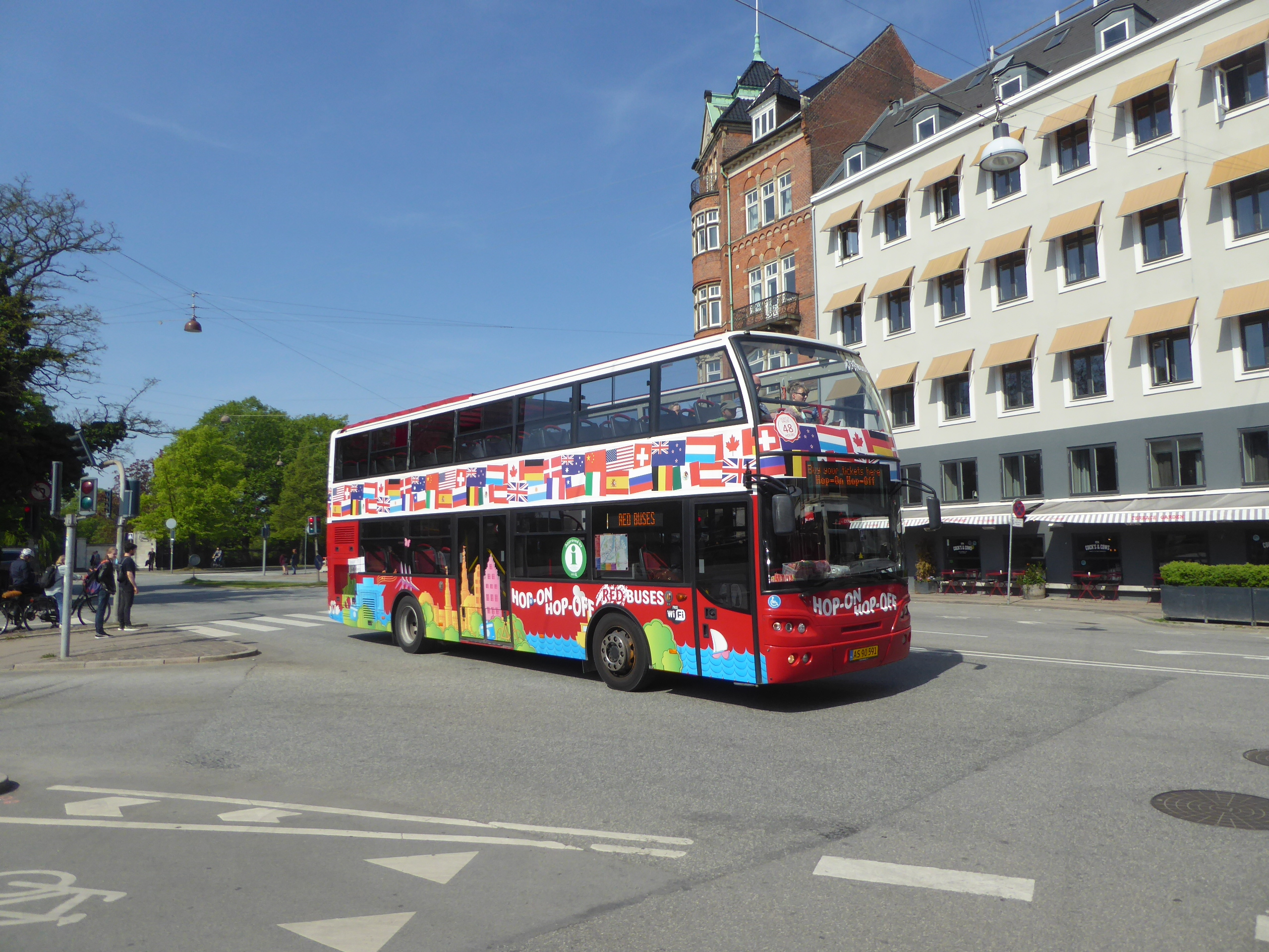 Sightseeing bus of Red City Buses Denmark on Vester Voldgade at Jarmers Plads in Indre By in Copenhagen.